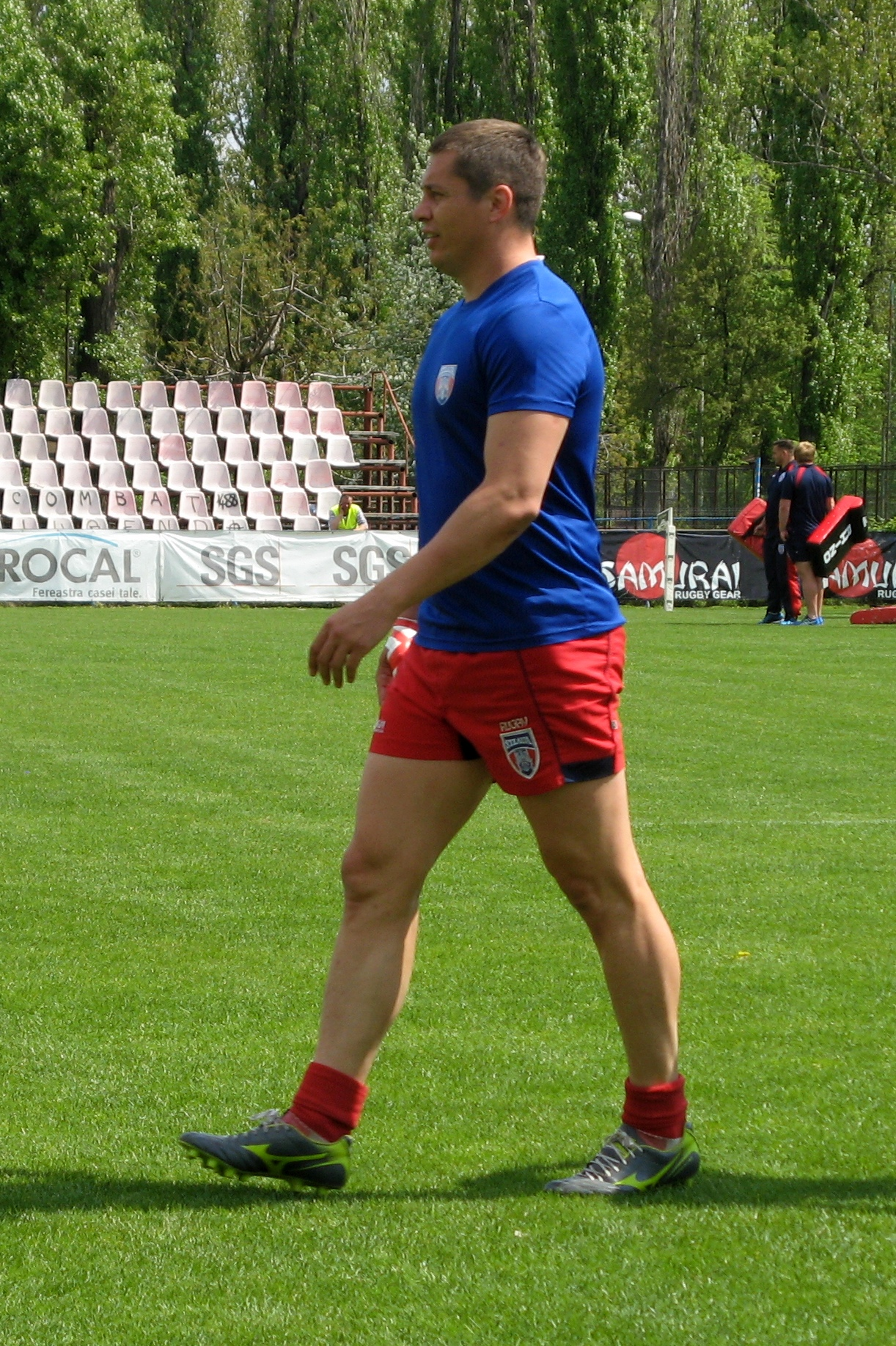 Romanian international rugby union football player, Robert Cătălin Dascălu, from CSA Steaua București rugby club seen training before a match against Timișoara Saracens in Romanian Rugby SuperLiga in April 2017